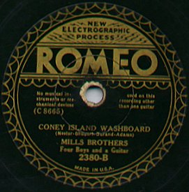 Romeo Records 78 label, 1932, featuring the Mills Brothers.